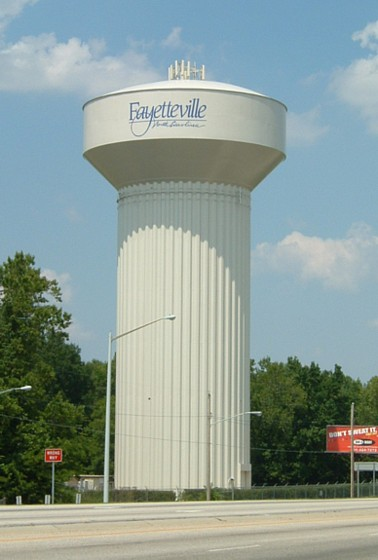 Water Tower with new city logo, in Fayetteville, North Carolina